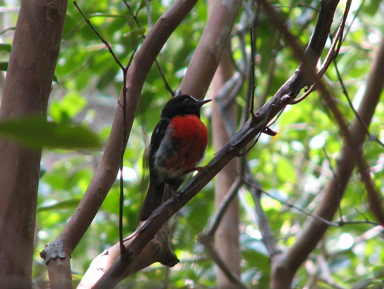 A Pacific Robin (also known as the Norfolk Island Pacific Robin) near the Bird Rock track on Norfolk Island, Australia.